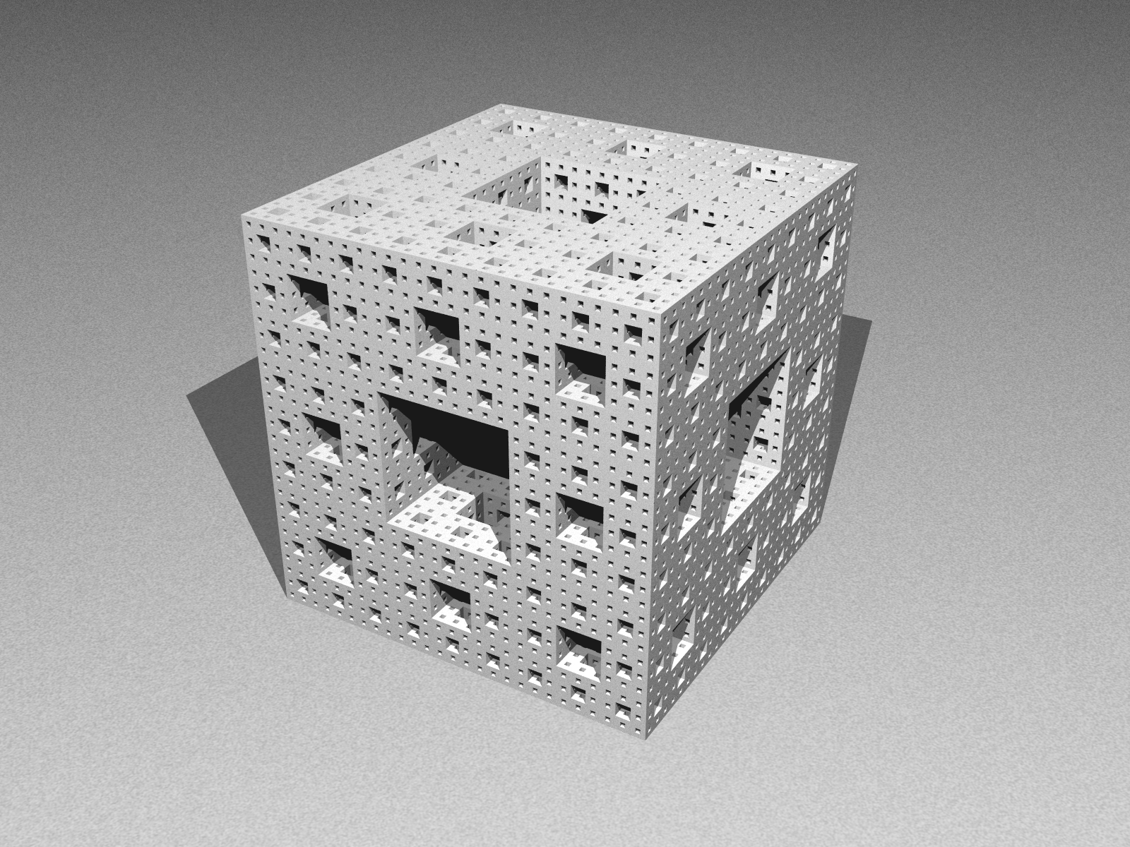 Description: Menger Sponge Source: self-made Date: created 19. Aug. 2006 Author: Amir R. Baserinia Permission: GFDL (self made)